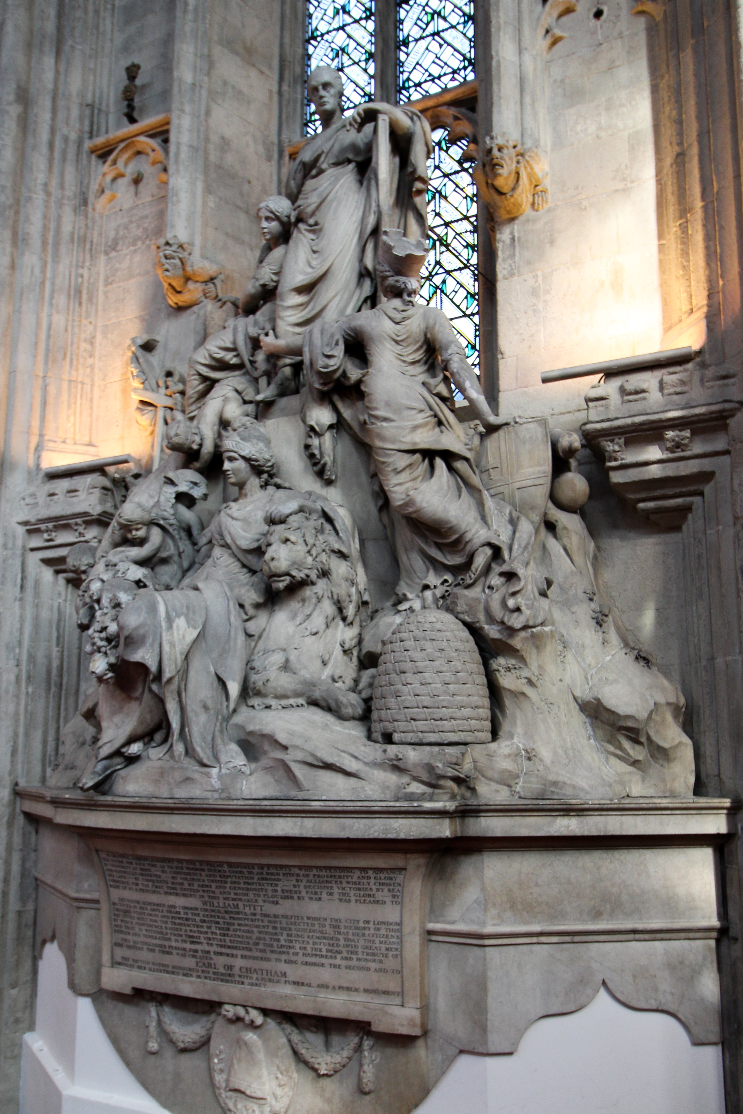 Guildhall|, City of London. Open House Weekend 2015.